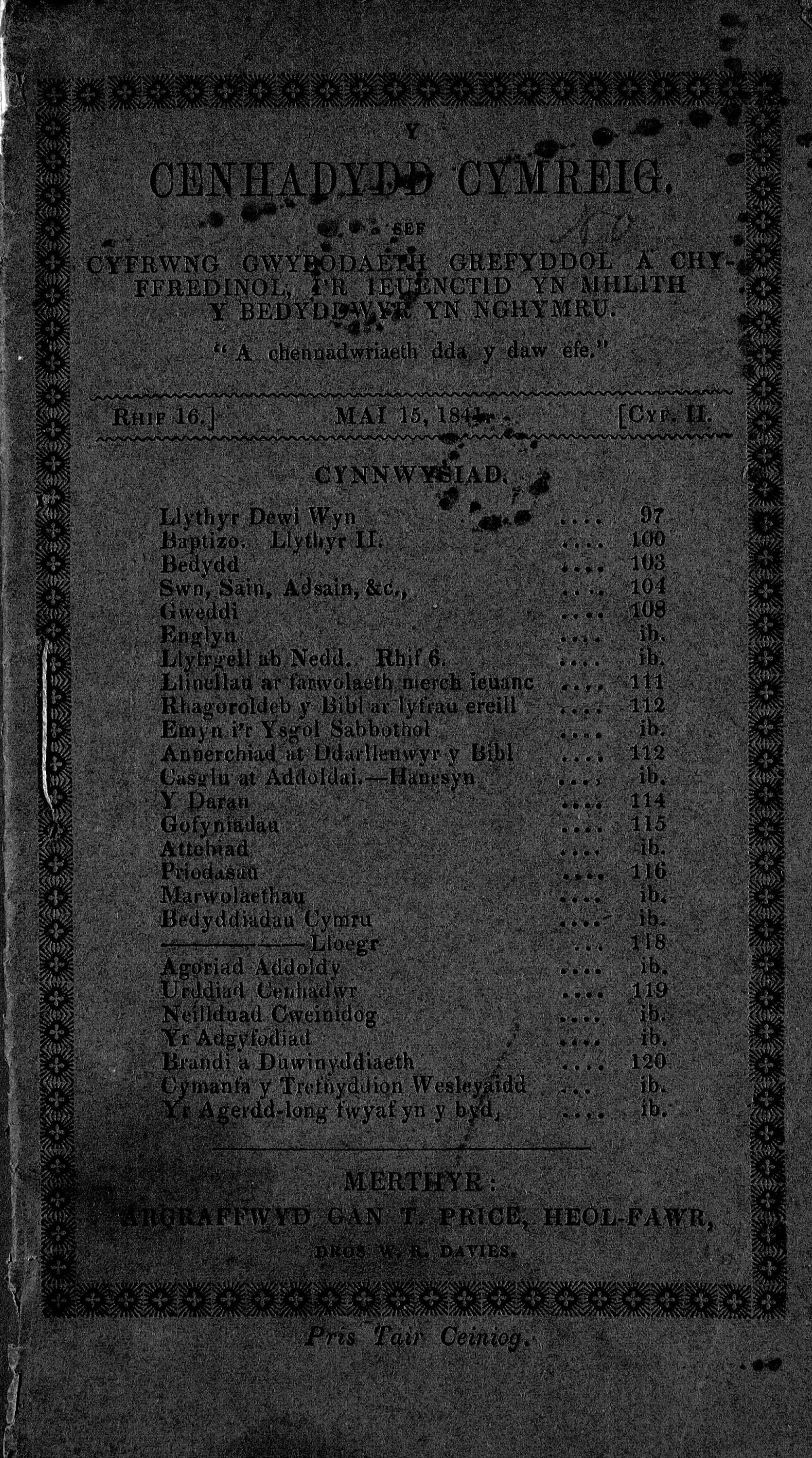 A monthly Welsh language religious periodical intended for the young people of the Baptist denomination. The periodical's main contents were articles on religion and foreign countries, missionary and denominational news and poetry. The periodical was jointly edited by the Reverend William Robert Davies and the Reverend Thomas Davies until January 1842, and subsequently by William Robert Davies.